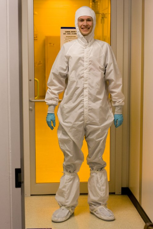 Matt Britt wearing a bunny/moon/cleanroom suit.